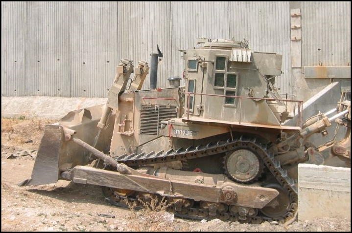 IDF Caterpillar D9N armored bulldozer